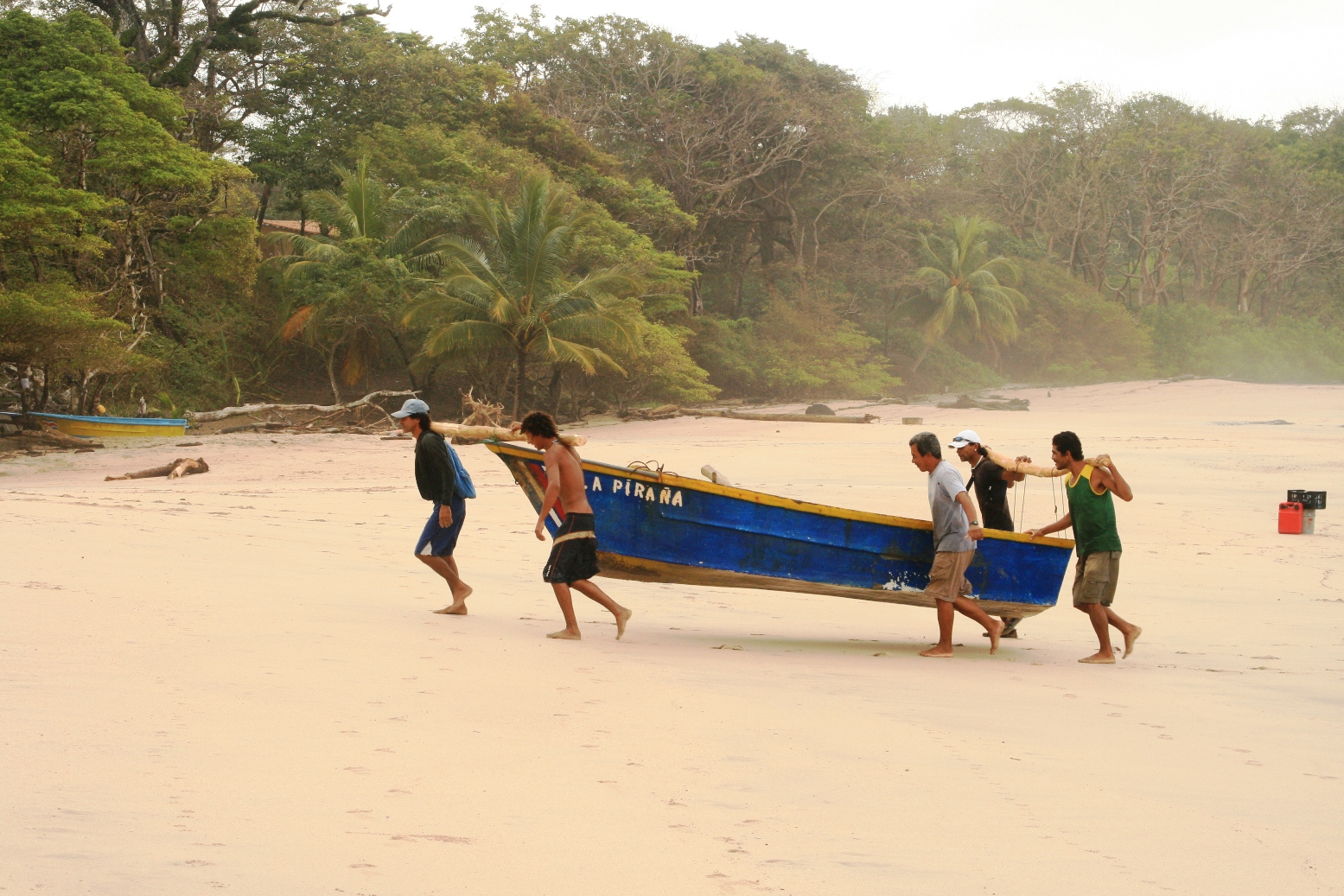 Fisherman move a boat up Playa Nosara beach